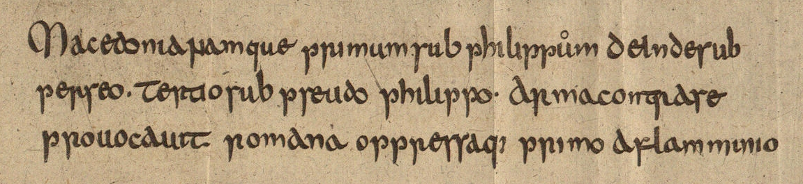 Friedrich Wilken, Geschichte der Bildung, Beraubung und Vernichtung der alten Heidelbergischen Büchersammlungen: ein Beytrag zur Literärgeschichte vornehmlich des funfzehnten und sechszehnten Jahrhunderts ; nebst einem ... Verzeichniß der im Jahr 1816 von dem Papst Pius VII. der Universität Heidelberg zurückgegebenen Handschriften und einigen Schriftproben, Heidelberg, 1817, Tafel 2, Nummer 2 (Codex Heidelbergensis 921; )